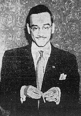 From left to right, Brazilian intellectuals Aurélio Buarque de Holanda, Marques Rebelo and Otávio Tarquínio de Sousa.